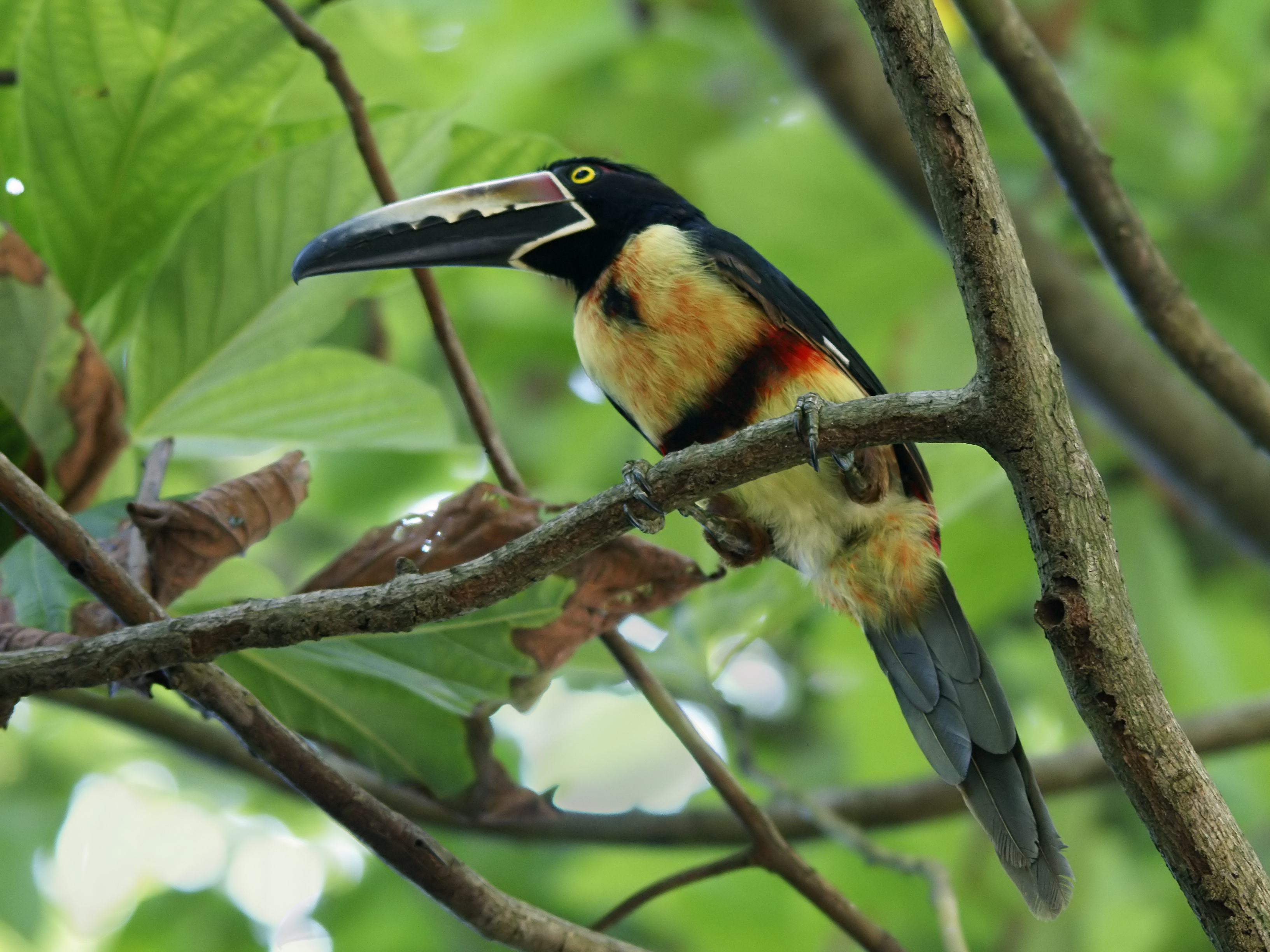 Collared Aracari at Montezuma, Nicoya Peninsula, Costa Rica.